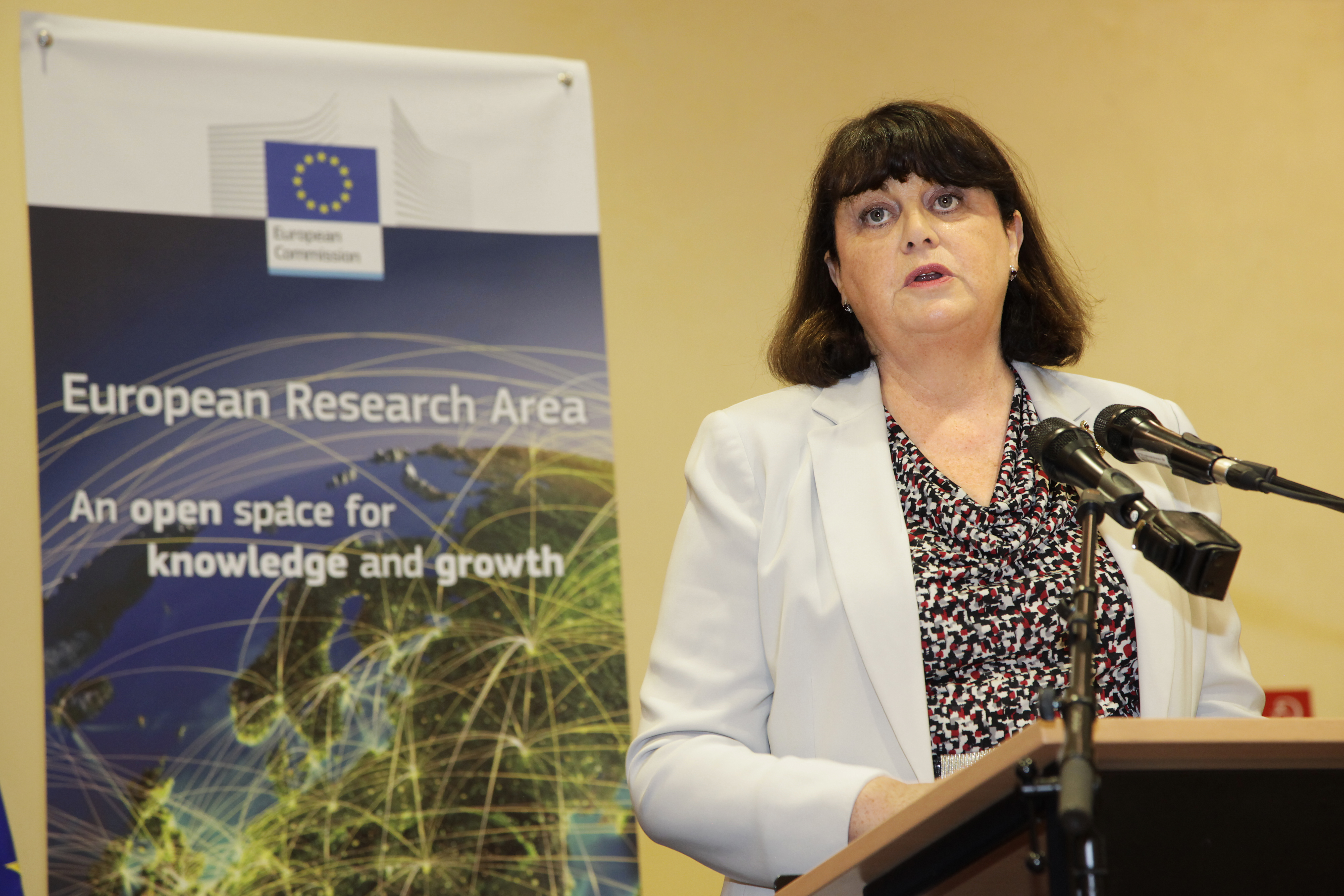 Máire Geoghegan-Quinn - the EU commissioner for research, innovation, and science - addressing a crowd at the European Commission's headquarters in Brussels at the signing ceremony for the European Research Area. Photo: Terje Heiestad / NordForsk.